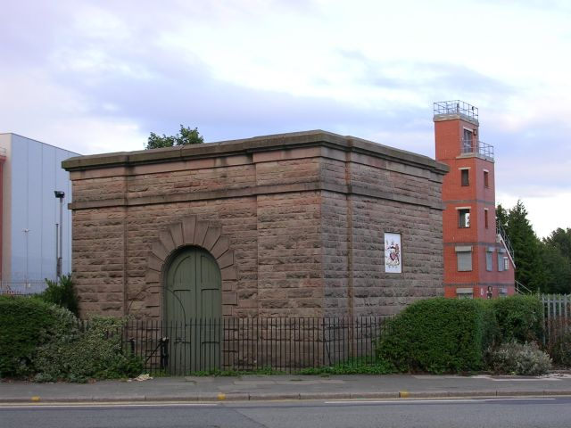 Lake District Water flows under here. The Thirlmere Aqueduct carries water from the Engmish Lake District to the reservoirs at Audenshaw, a distance of approx. 96 miles . It was constructed by Manchester Corporation Waterworks in phases completed between 1897 and 1925. Carrying approx. 200 million litre per day, it takes about 30 hours for water,which flows under gravity, to travel the length of the system. These structures, which I assume are valve houses, appear at intervals along its length. The journey to Manchester starts here: 19789